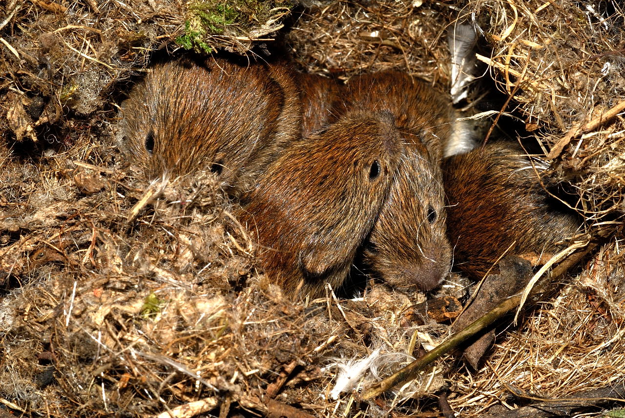 Young bank voles (Clethrionomys glareolus) in their nest.